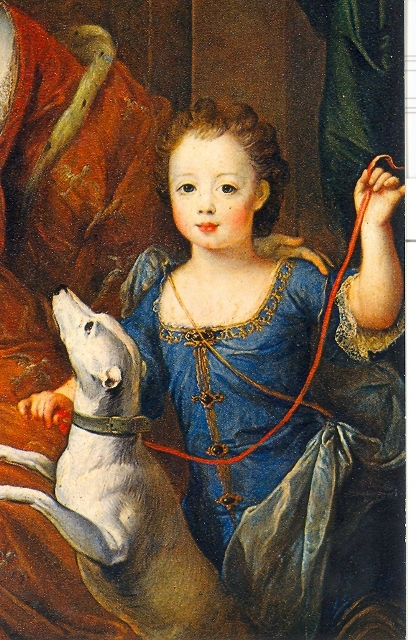 A painting of Élisabeth Charlotte d'Orléans and her son, Louis by Pierre Gobert.